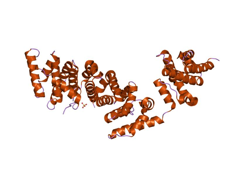 Cartoon representation of the molecular structure of protein registered with 1ho8 code.